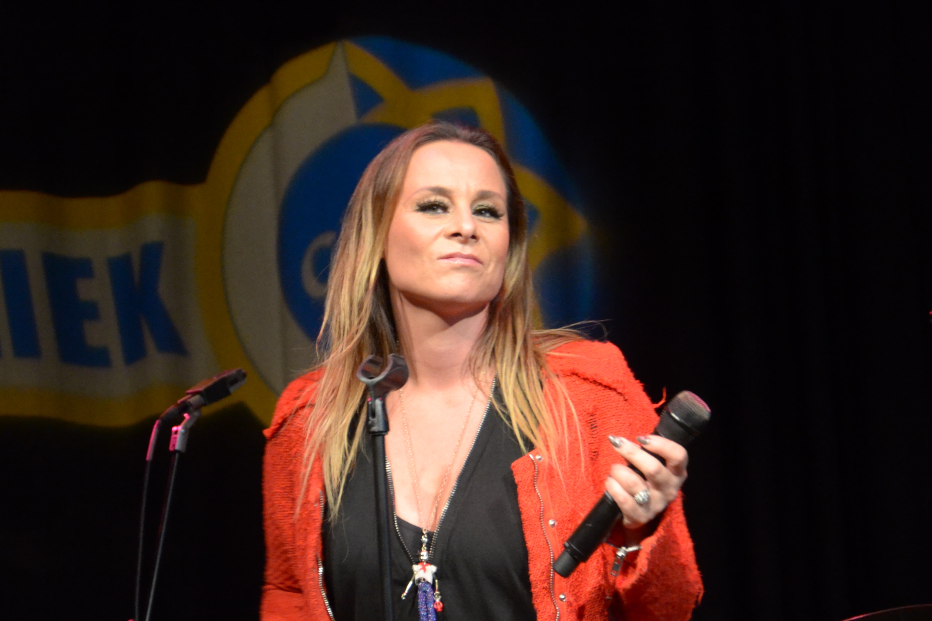 Singer Trijntje Oosterhuis , performing in the live radio broadcast "Tros Muziekcafé", from "De Vorstin", Hilversum, The Netherlands.